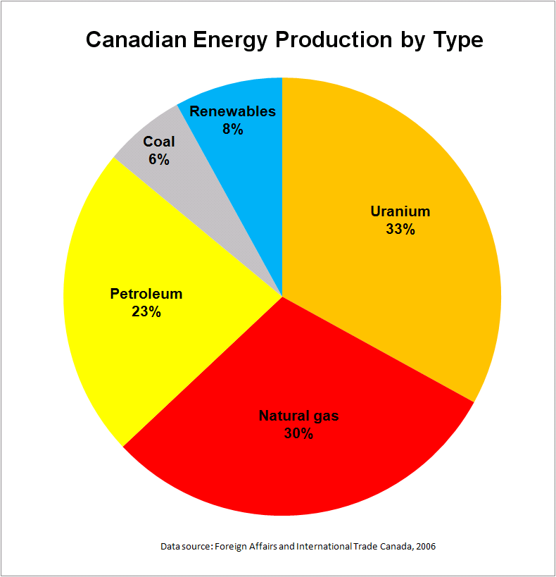 Pie chart of Canadian energy production by primary type